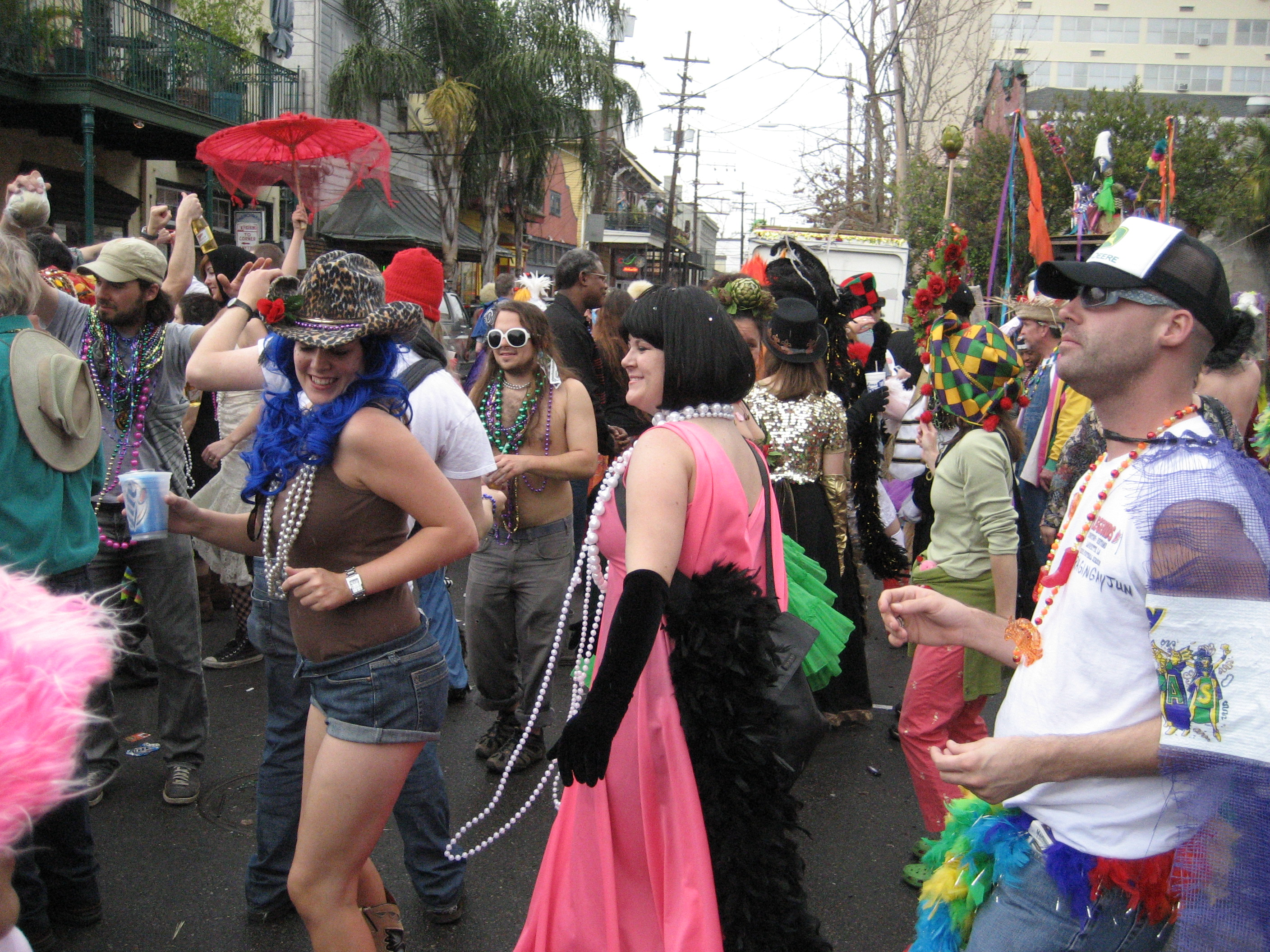 New Orleans Mardi Gras: Costumed revelers dancing on Frenchmen Street in Marigny neighborhood.